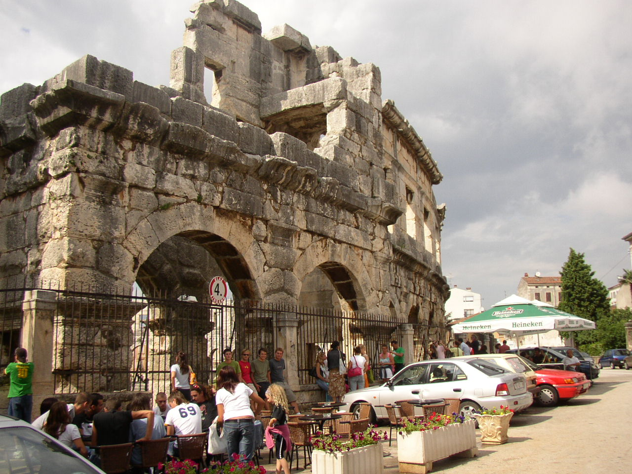 Amphitheatre of Pula in Istria (Croatia)